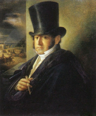 Konstantin Bulgakov (1782-1835), Russian diplomat and postmaster